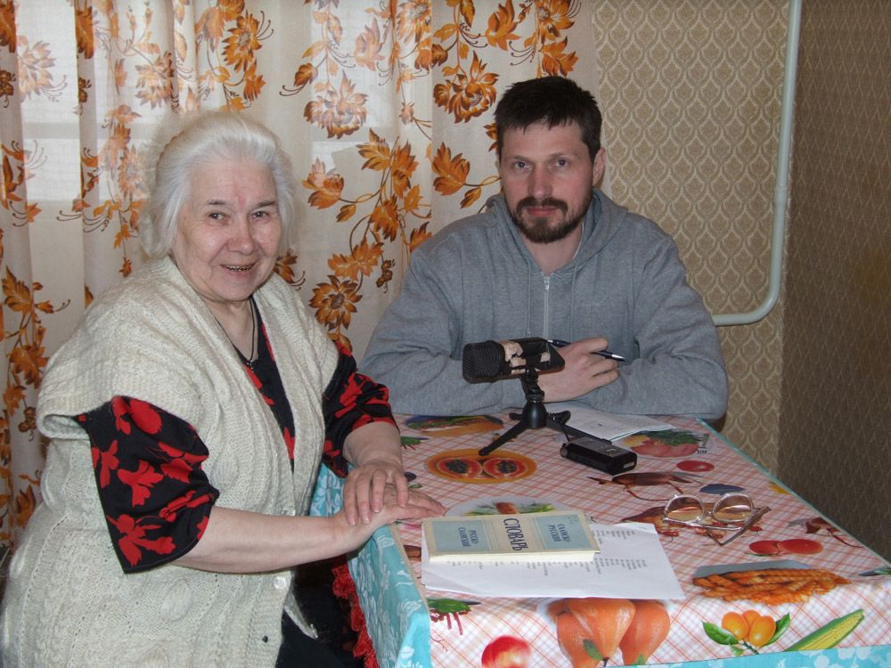 Alexandra Antonova and Michael Rießler (from left) during elicitation in Lovozero (April 2008)